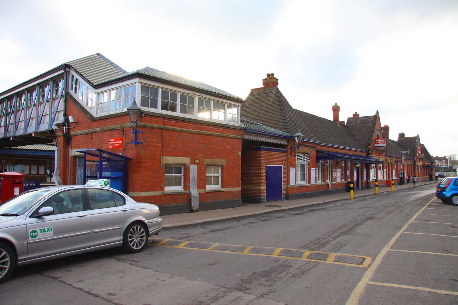 Newbury Station, near to Newbury, West Berkshire, Great Britain.